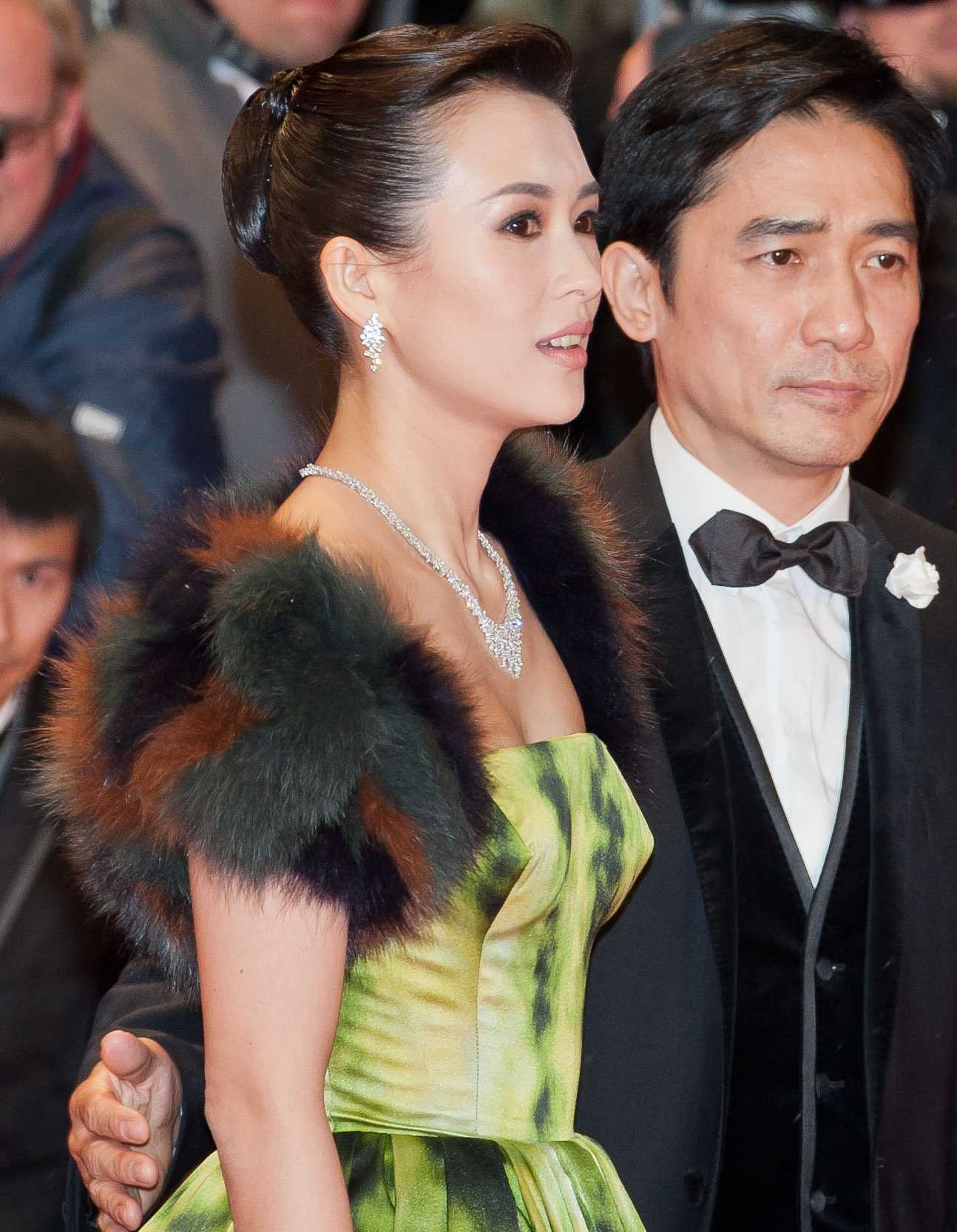 Chinese Actors Tony Leung Chiu Wai and Zhang Ziyi at the Berlin Film Festival 2013 (cutting